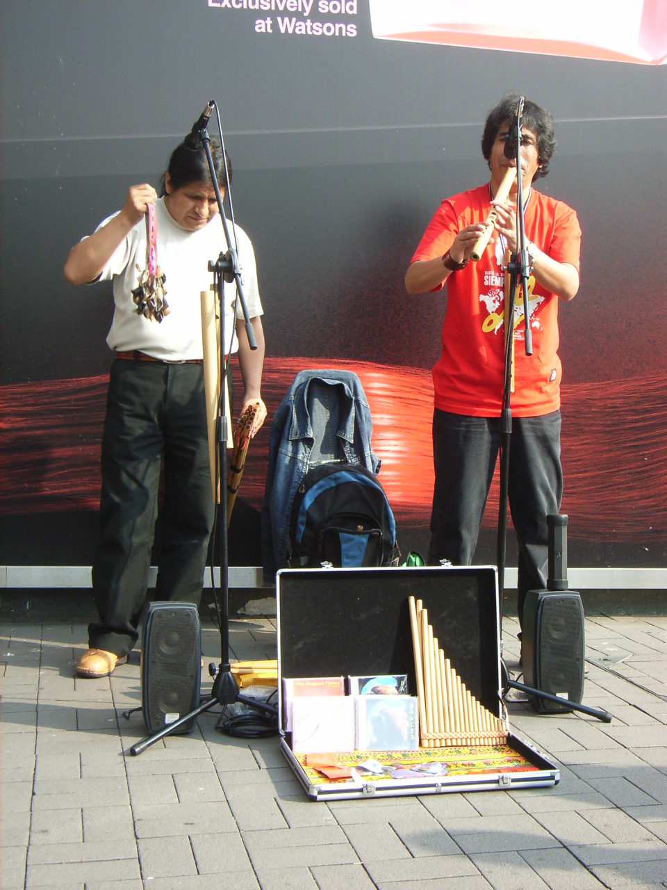 街頭藝人 又稱 街道zh:藝術家, 有些是即興表演, 有些是為謀生, 也有些是為了宣傳推廣他的商品, 例如圖中的藝人他們的純zh:音樂zh:光盤. Street performers in TST, Hong Kong. Photo created by User:HungBEER.